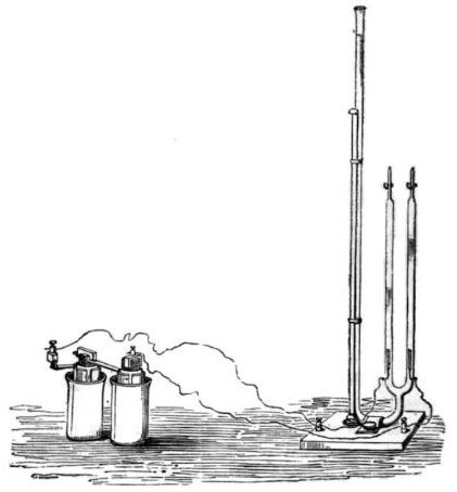 Hofmann voltameter, from his 1866 book Introduction to Modern Chemistry: Experimental and Theoretic; Embodying Twelve Lectures Delivered in the Royal College of Chemistry, London.